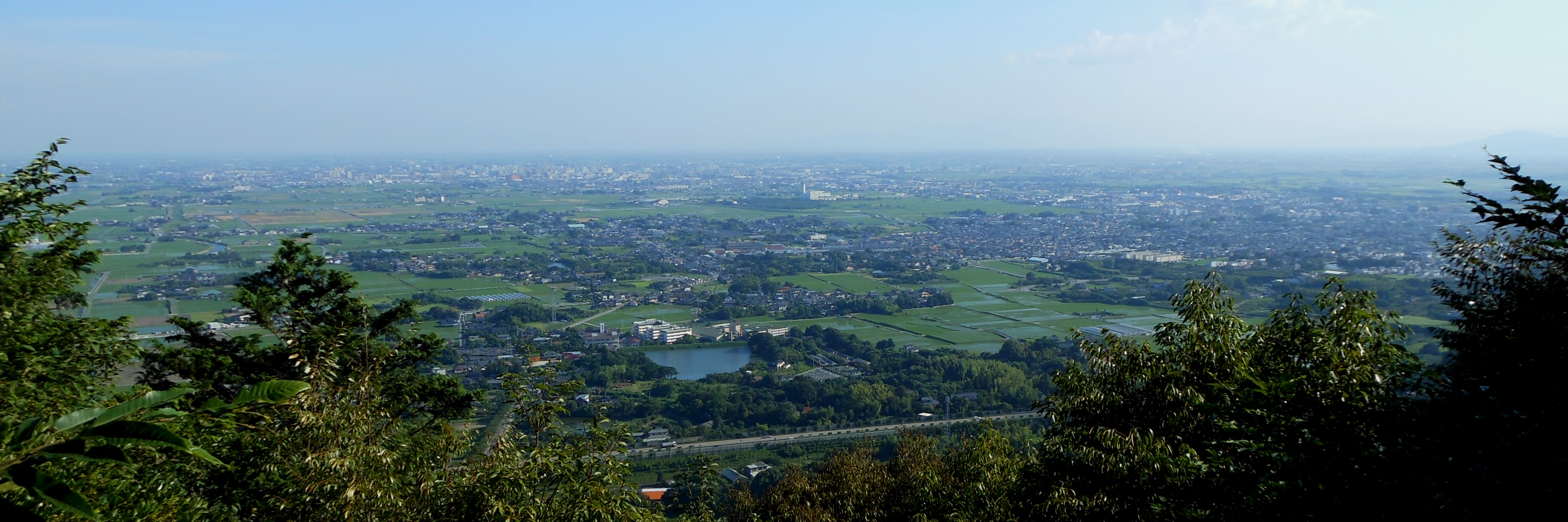 Wide view of Saga Plain, Saga prefecture, Japan.